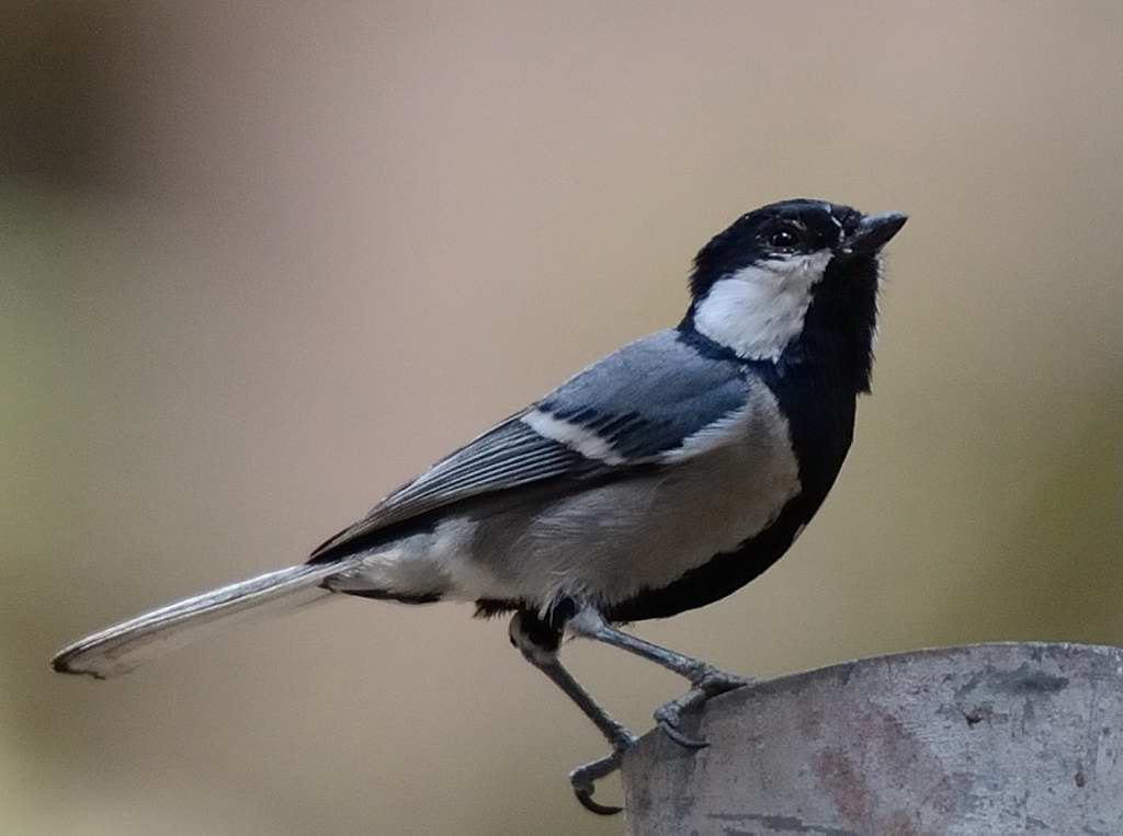 Shot at Bangalore